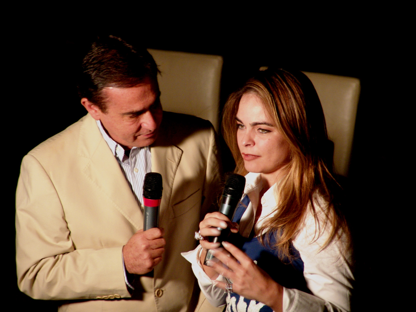 Amaury Jr. e Liliane Ventura